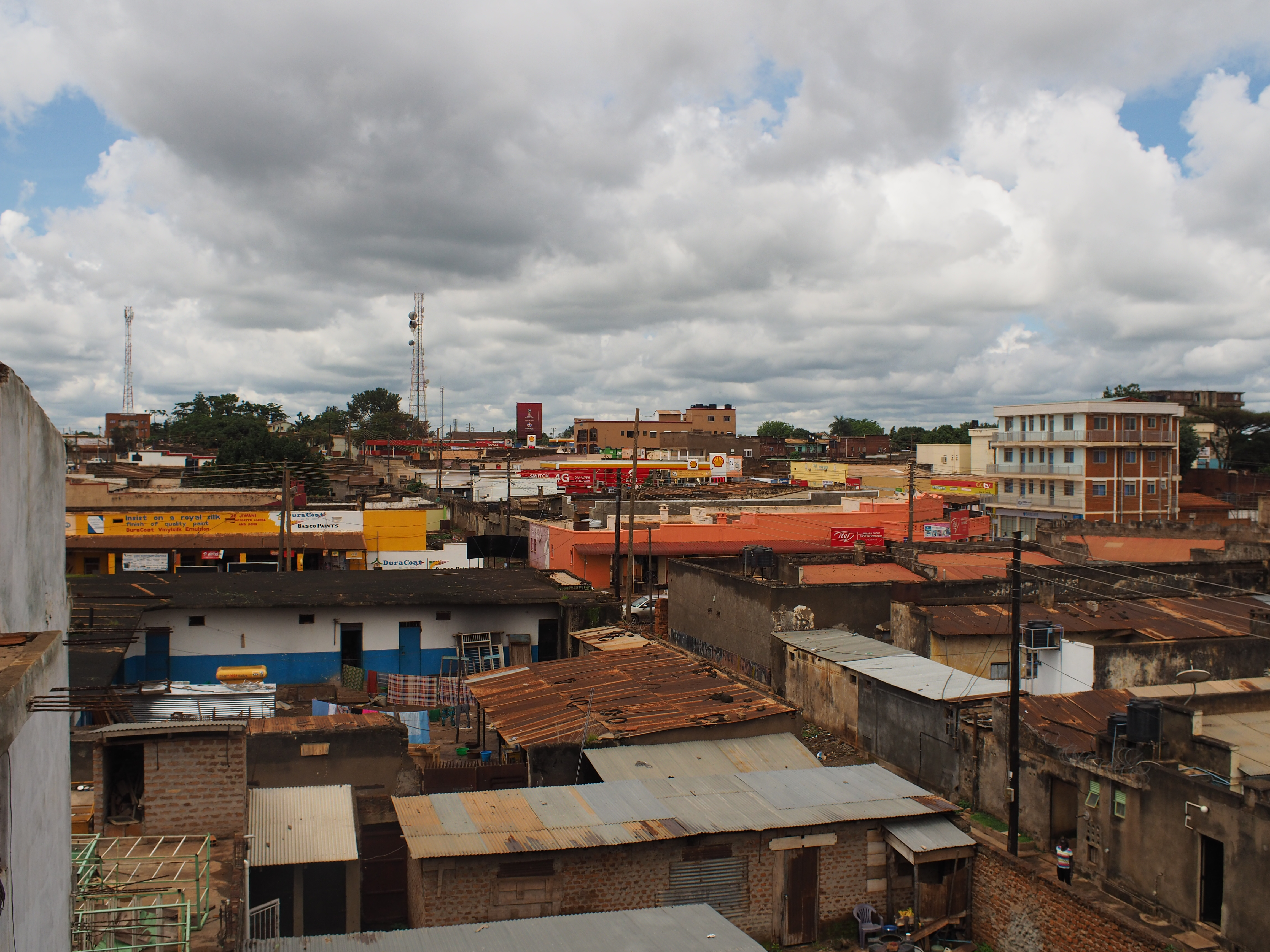 Skyline of Gulu Town (Uganda) during the Rainy Season, taken from a central hotel roof